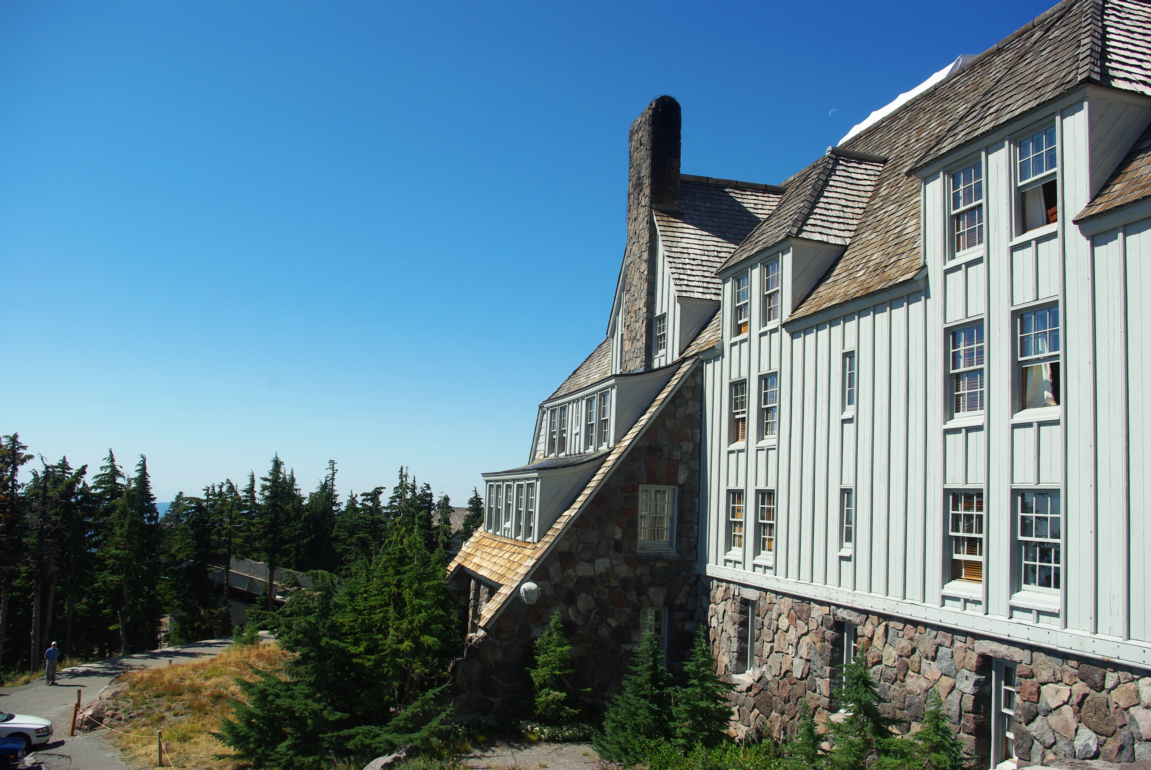 Timberline Lodge in Oregon, USA. South face of the lodge looking west from the patio.